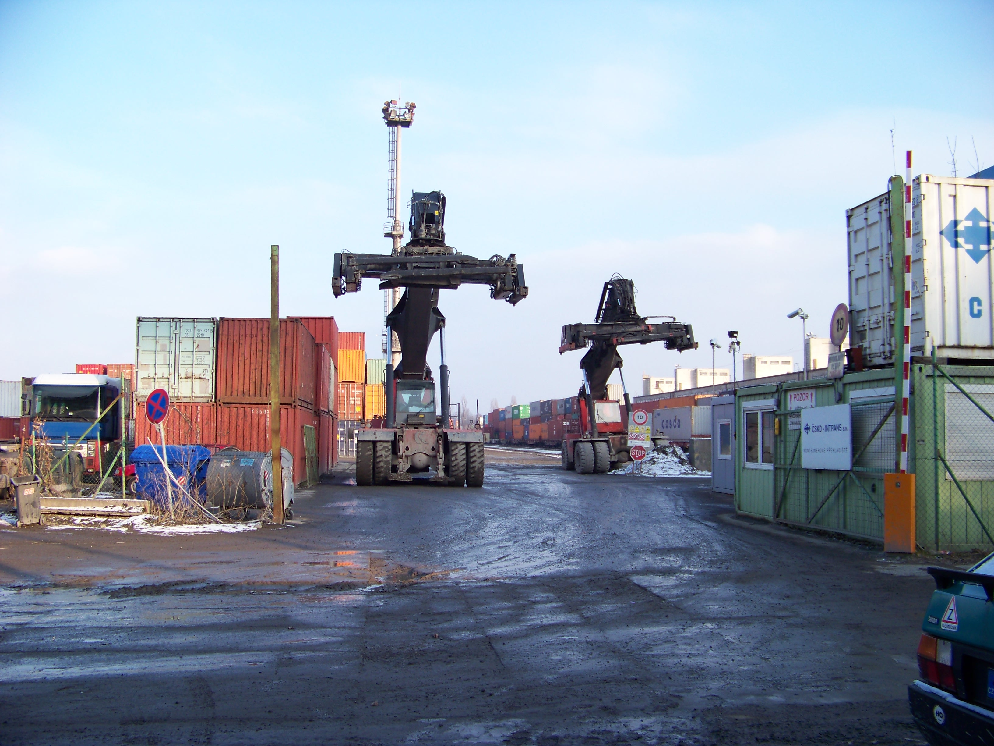 Prague-Žižkov, the Czech Republic. The freight railway station, a container terminal.